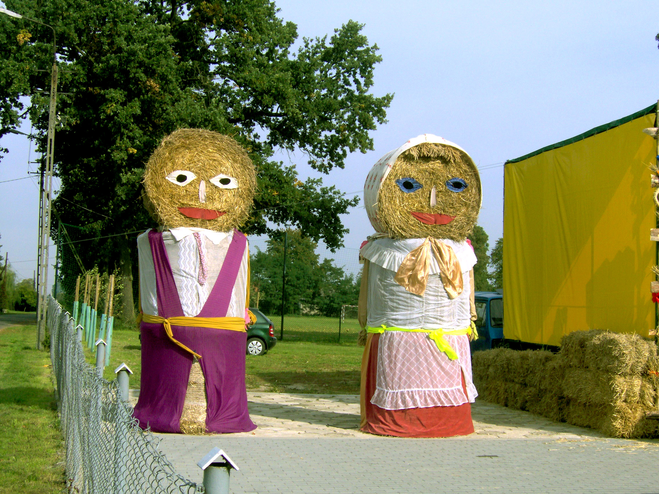 Decoration from straw bales in Kuczwały